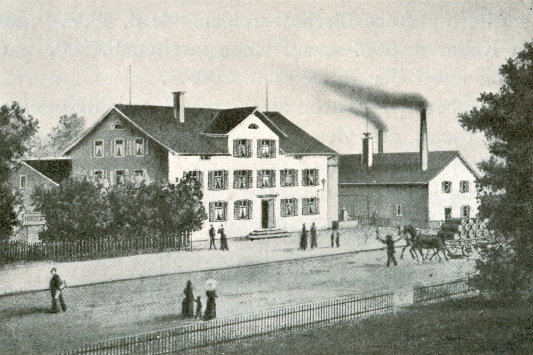 Brewery Horber in Zurich, Switzerland 1803-1898